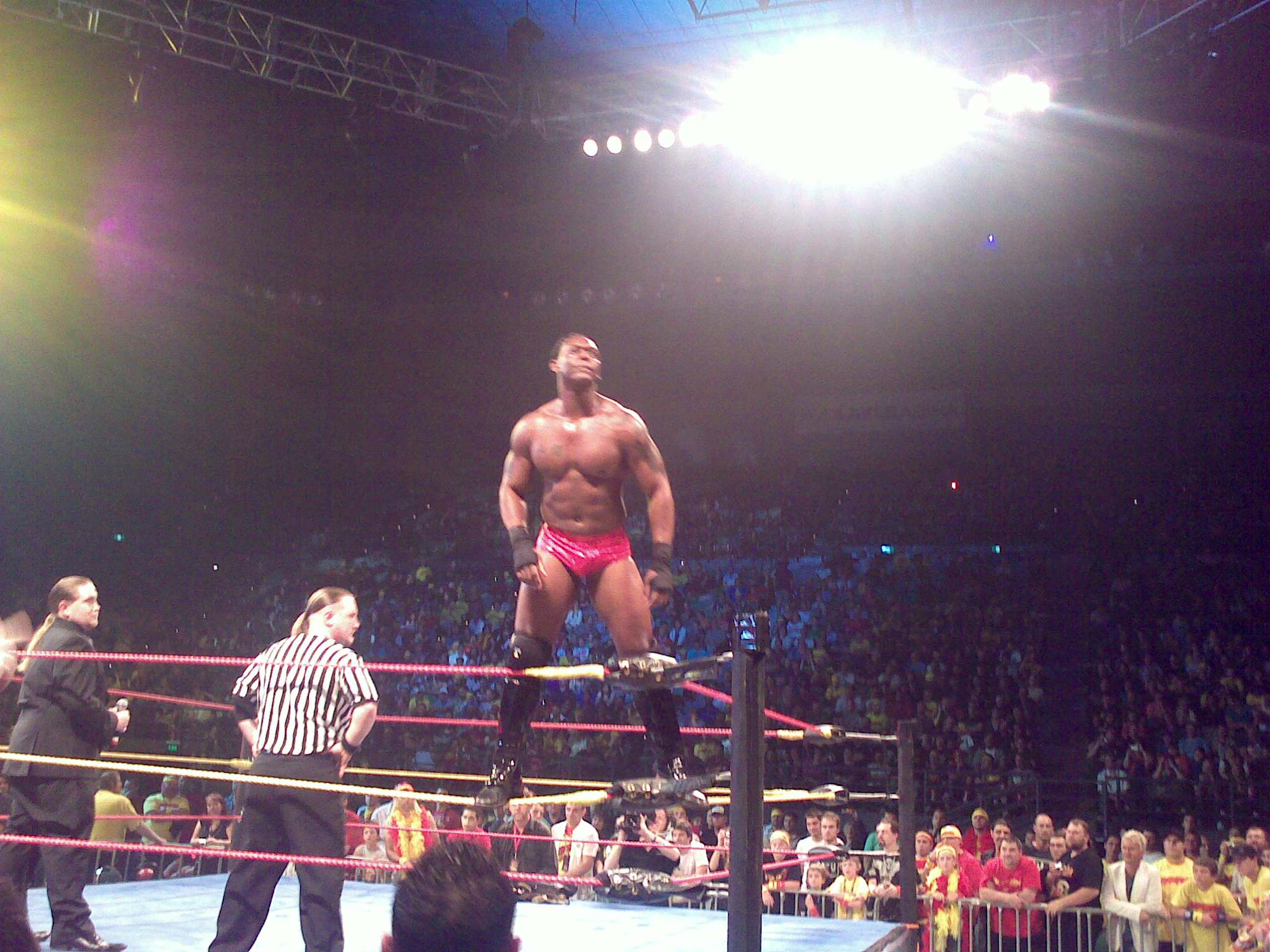 This guy was probably in the best nick of all